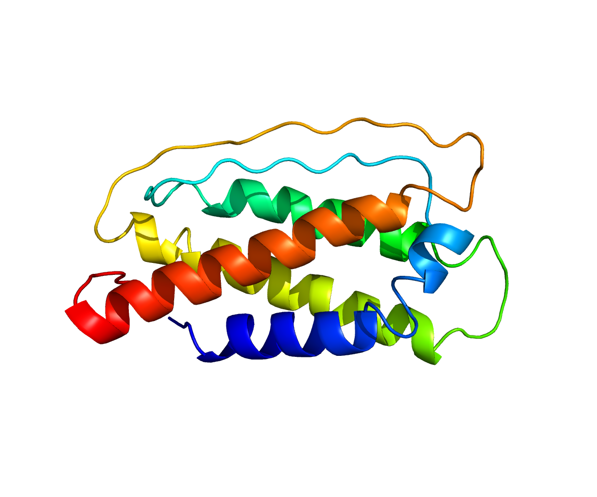 Structure of protein IL7.Based on PyMOL rendering of PDB 1IL7.